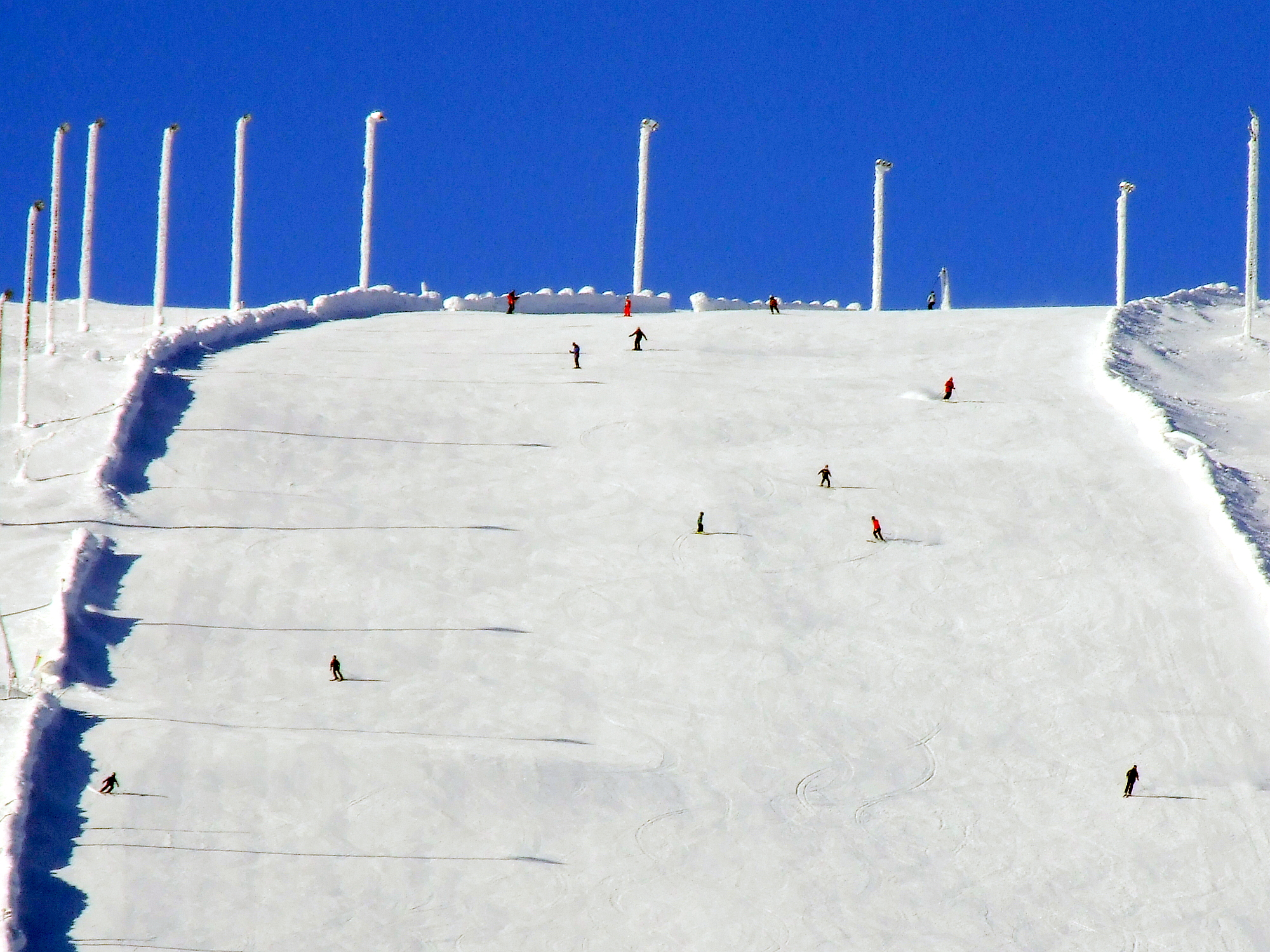 A view of a slope at Sport Resort Ylläs (aka Iso-Ylläs) in Yllästunturi